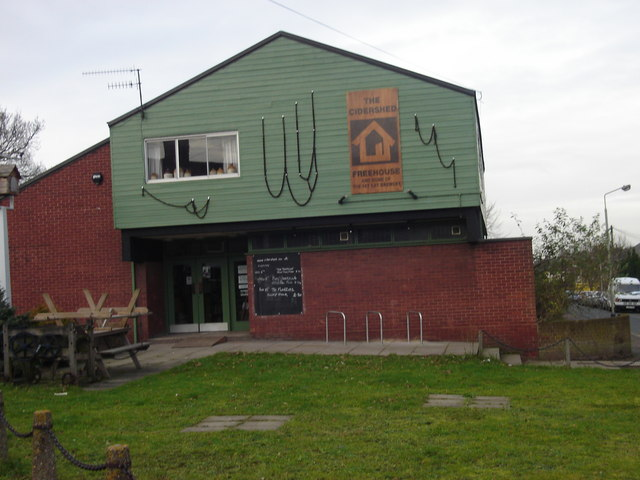 The Cidershed public house The home of the Fat Cat brewery